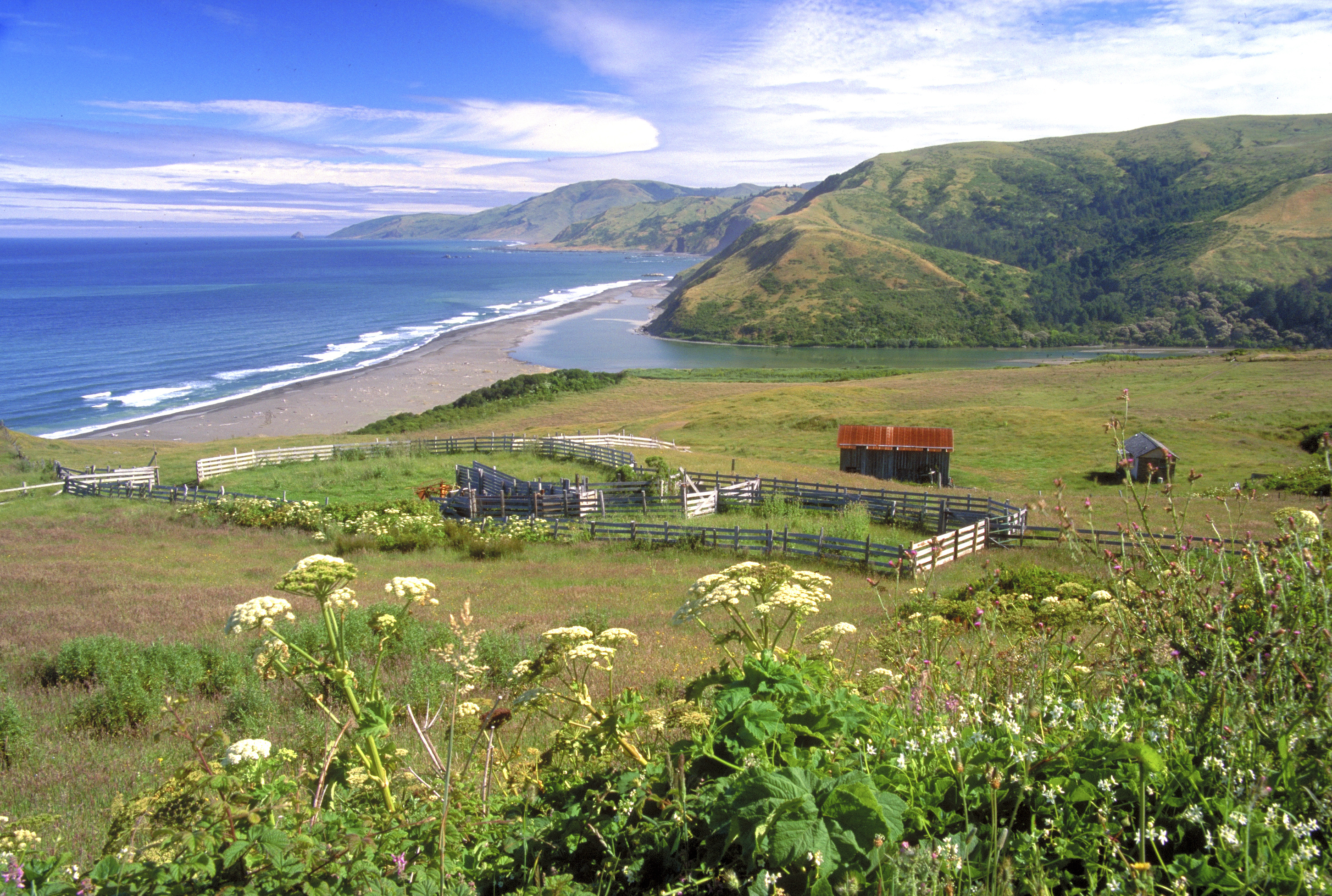 A spectacular meeting of land and sea is certainly the dominant feature of King Range National Conservation Area. Mountains seem to thrust straight out of the surf; a precipitous rise rarely surpassed on the continental U.S. coastline. King Peak, the highest point at 4,088 feet, is only three miles from the ocean. The King Range NCA covers 68,000 acres and extends along 35 miles of coastline between the mouth of the Mattole River and Sinkyone Wilderness State Park. Here the landscape was too rugged for highway building, forcing State Highway 1 and U.S. 101 inland. The remote region is known as California's Lost Coast, and is only accessed by a few back roads. The recreation opportunities here are as diverse as the landscape. The Douglas-fir peaks attract hikers, hunters, campers and mushroom collectors, while the coast beckons to surfers, anglers, beachcombers, and abalone divers to name a few. For more information visit: Photos/Videos: Bob Wick, BLM